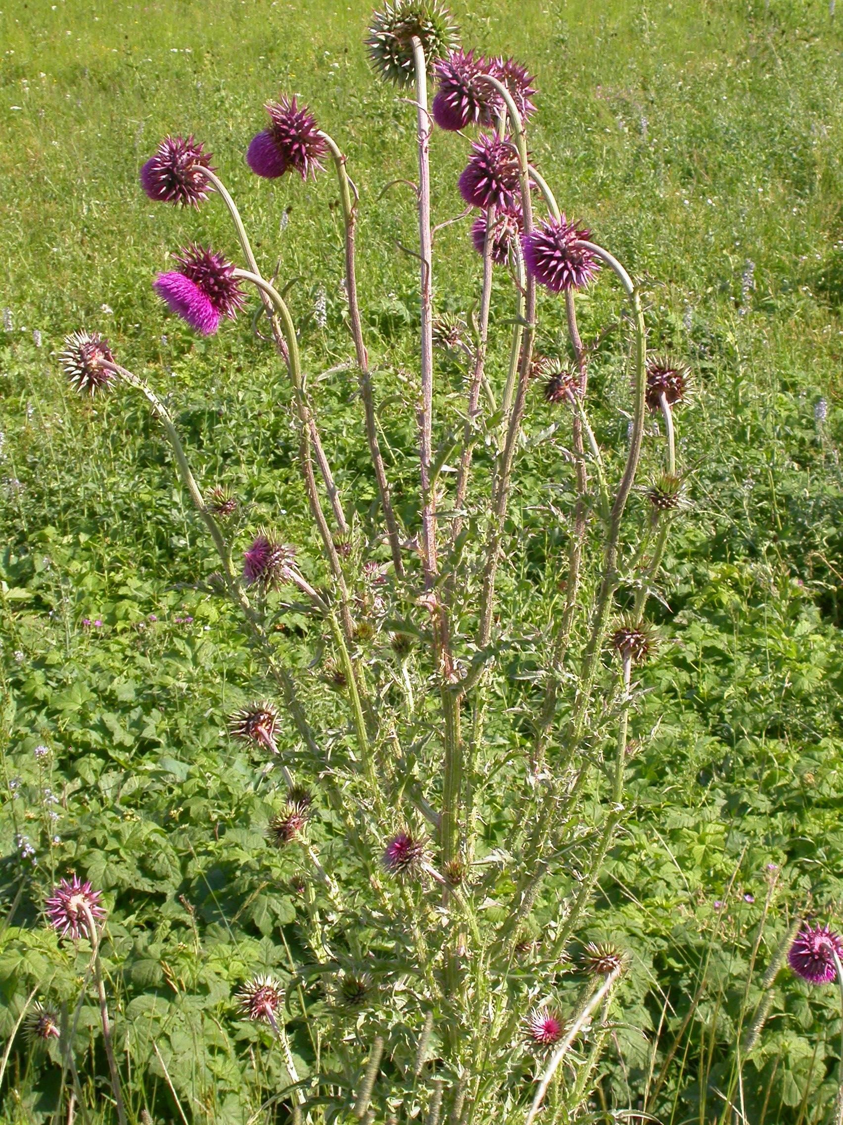 The broad recurved bracts surrounding the purplish flowers is diagnostic of the heads of musk thistle.